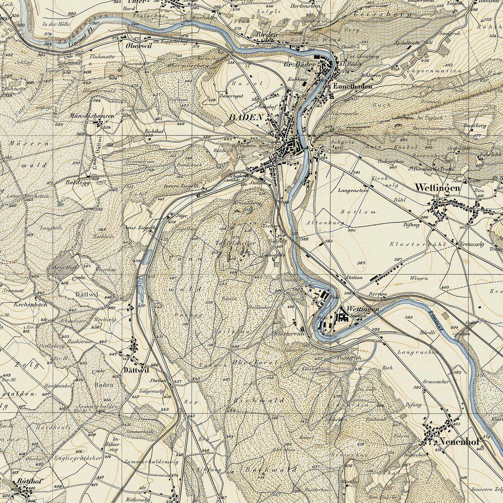 Baden and surrounding area on the Siegfried map of 1874, scale 1:25,000